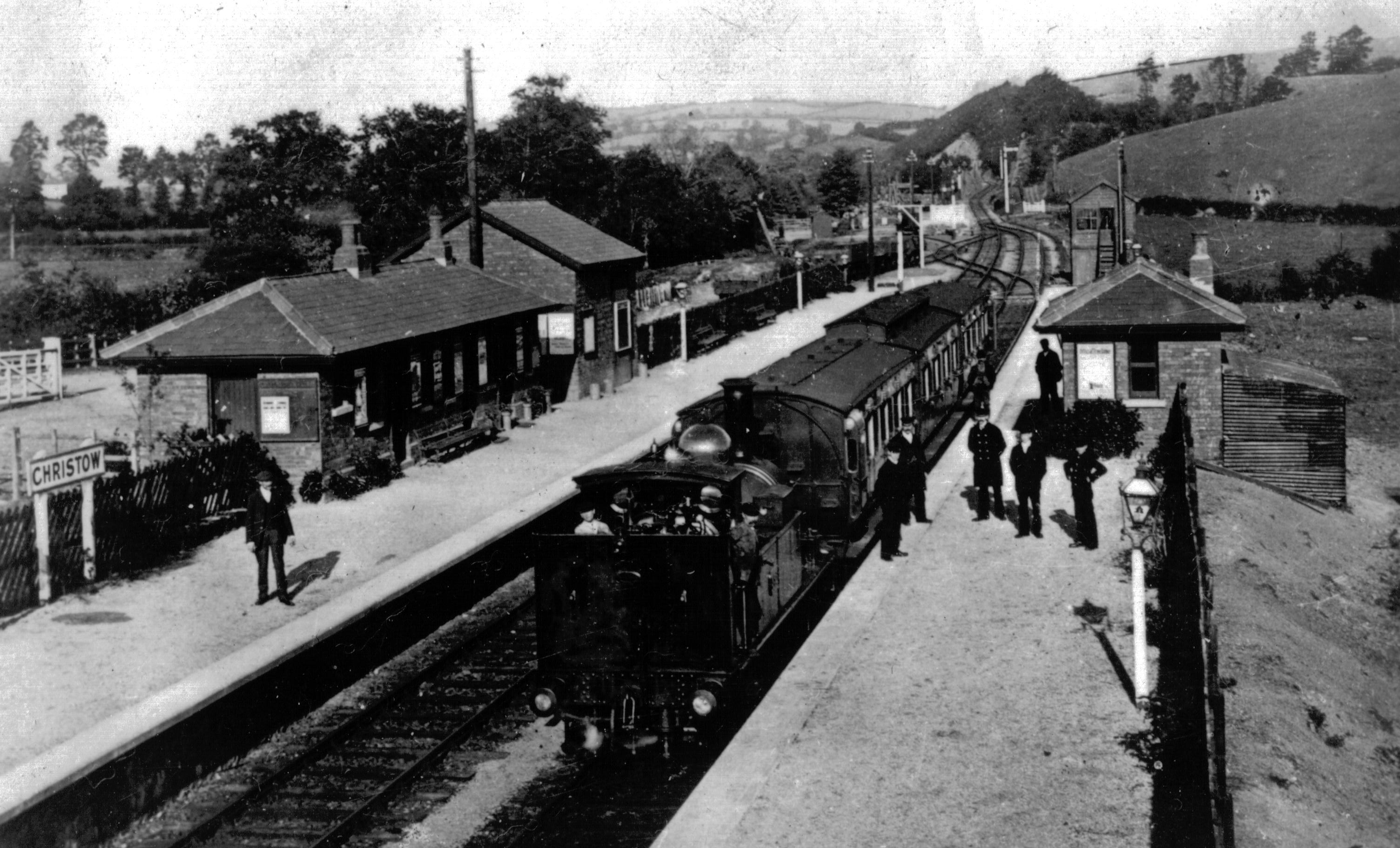 Christow station, South Devon, England